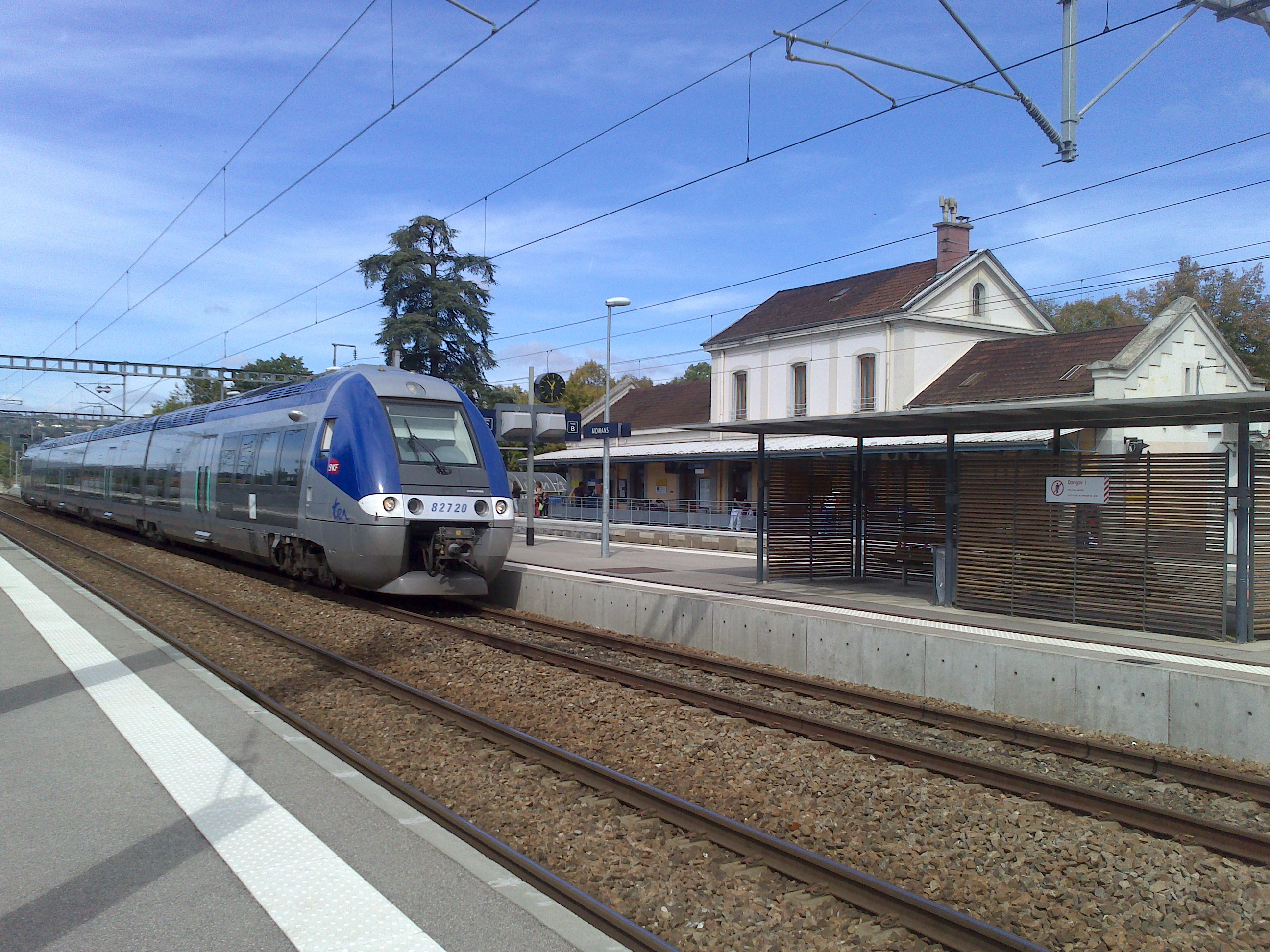 Rails in Moirans railway station with a train stopped